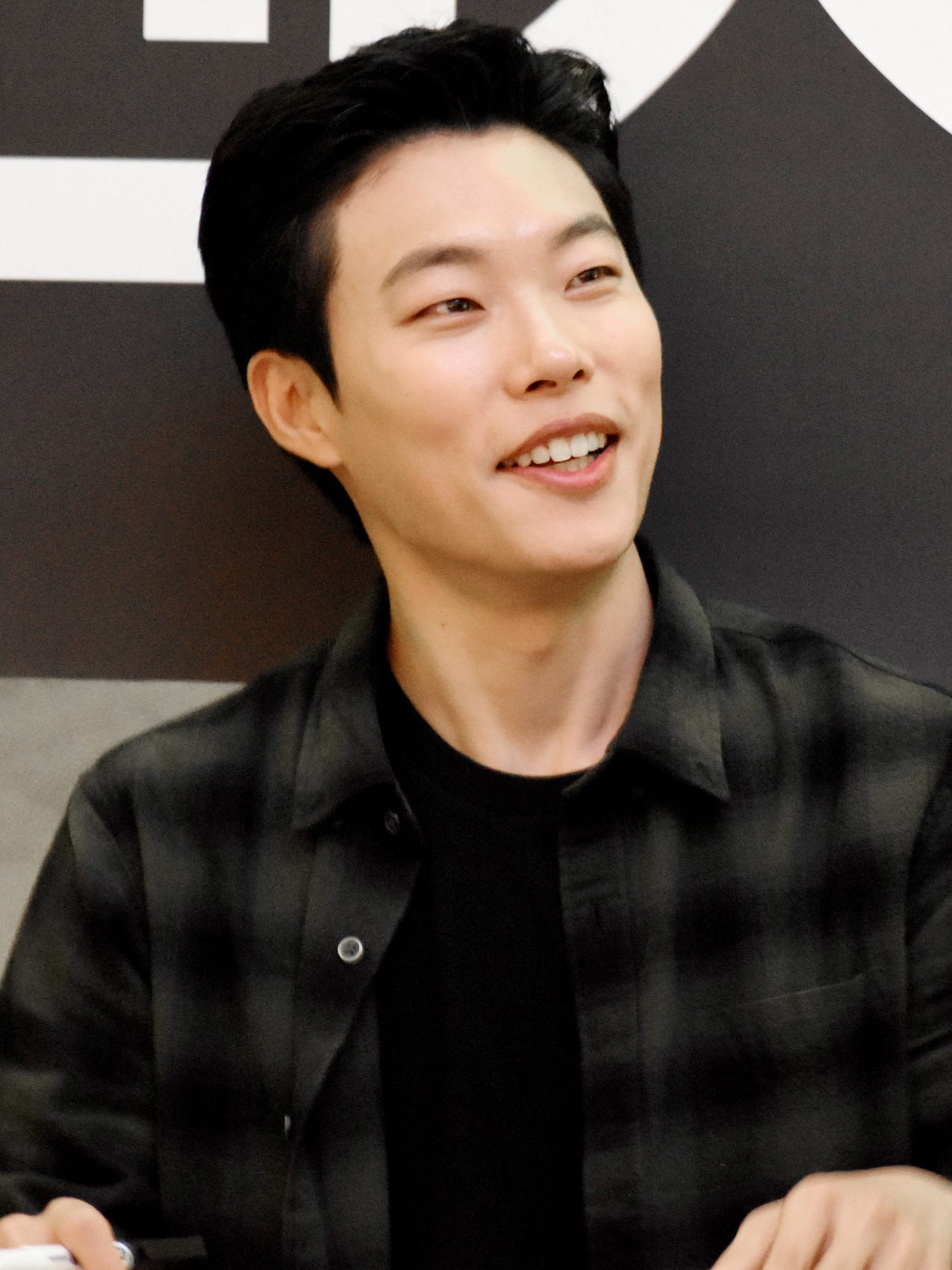 Ryu Jun-yeol at a fansign event at the Lotte World Mall in Jamsil on October 20, 2018.